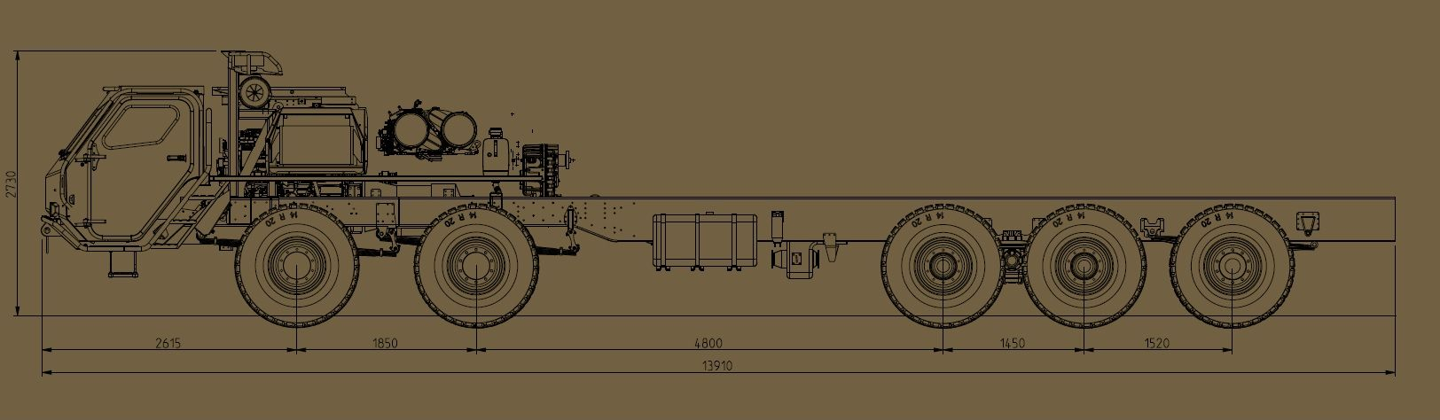 Sisu E15TP 10×10 chassis.